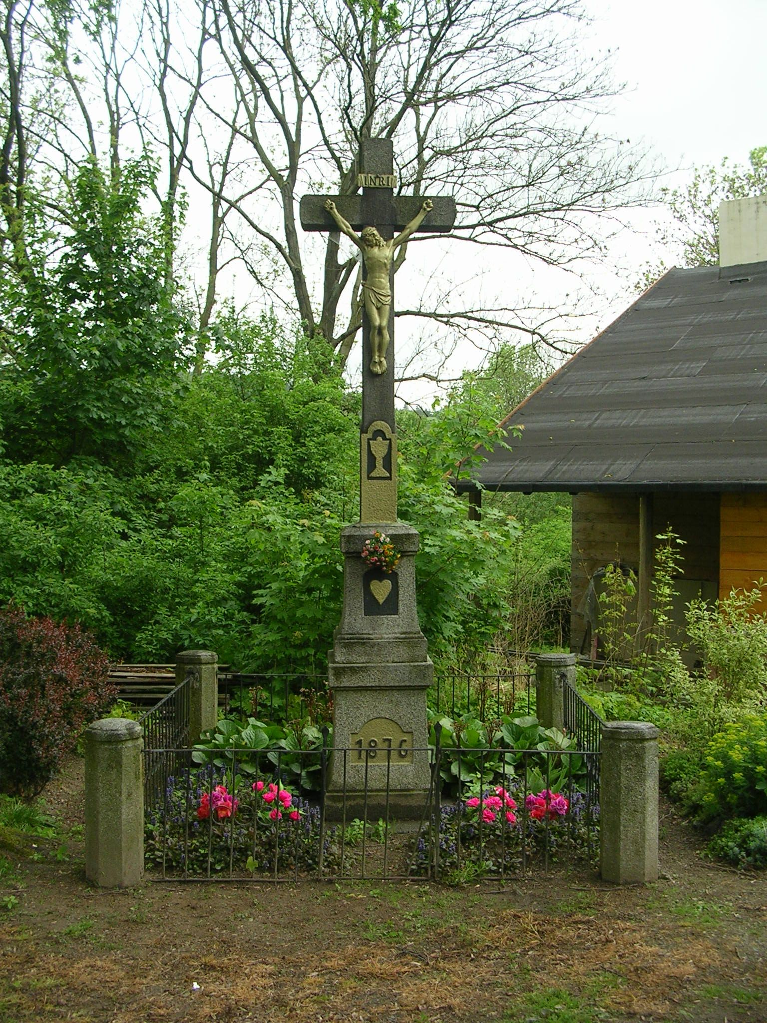 Votice-Lysá, Benešov District, Central Bohemian Region, the Czech Republic.